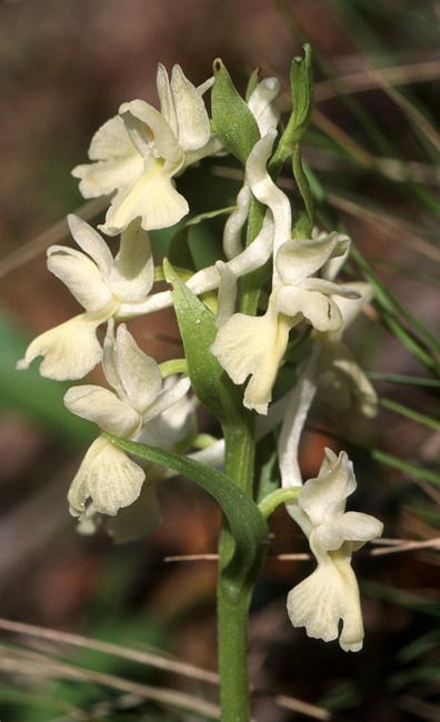 Dactylorhiza romana, Toscana, Italy